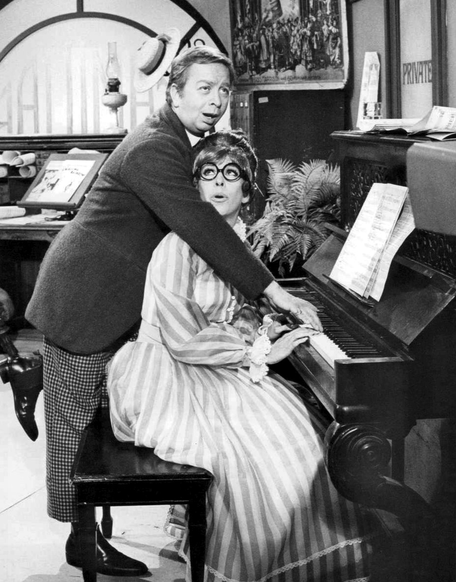 Publicity photo of Carol Burnett and Mel Torme in a skit from The Carol Burnett Show.